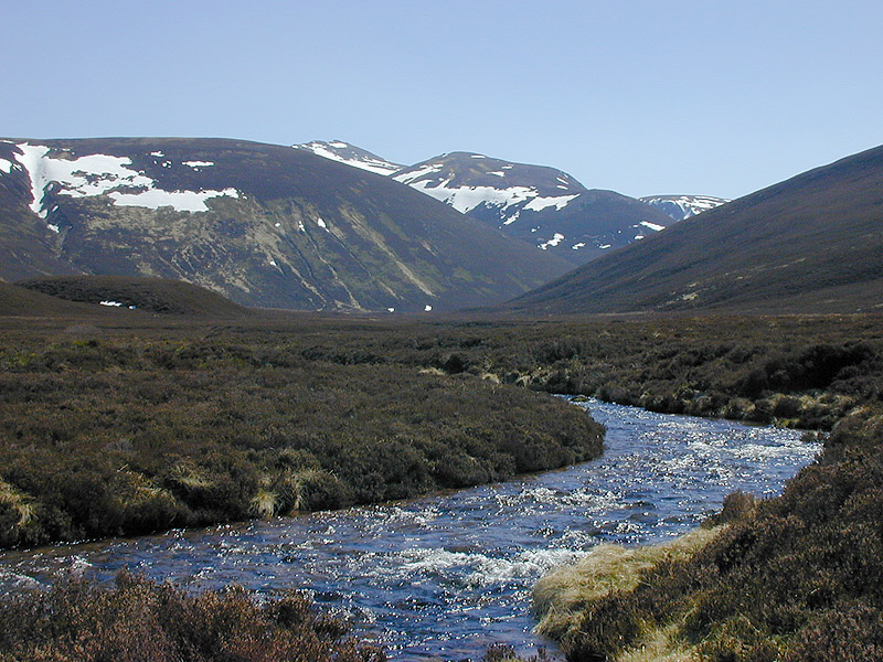 The Nethy by Bynack Stable Taken from by the bridge carrying the Lairig an Laoigh path. Beyond lies Strath Nethy, with Bynack Mor on the horizon.